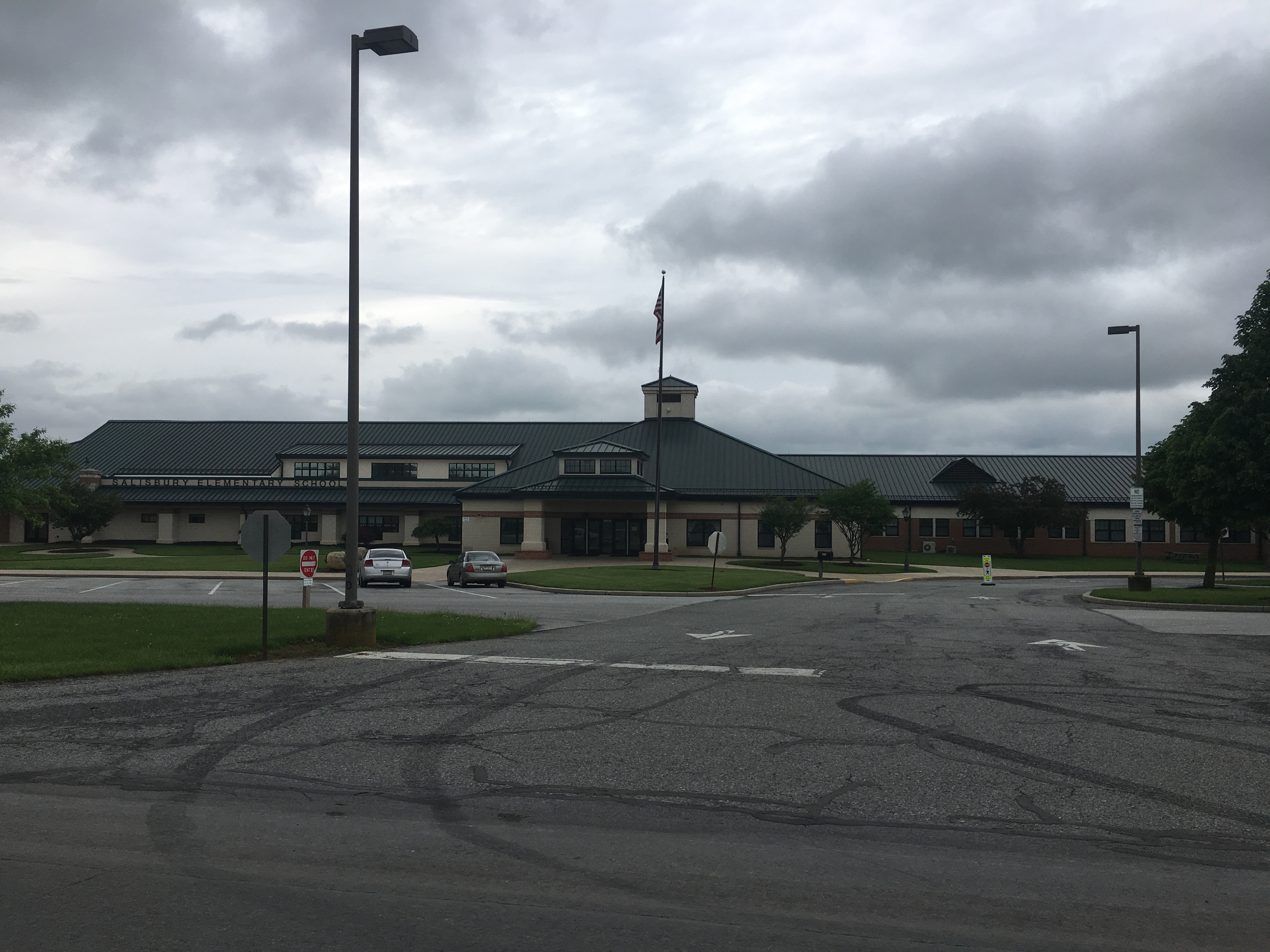 Salisbury Elementary School, one of two PVSD elementary schools